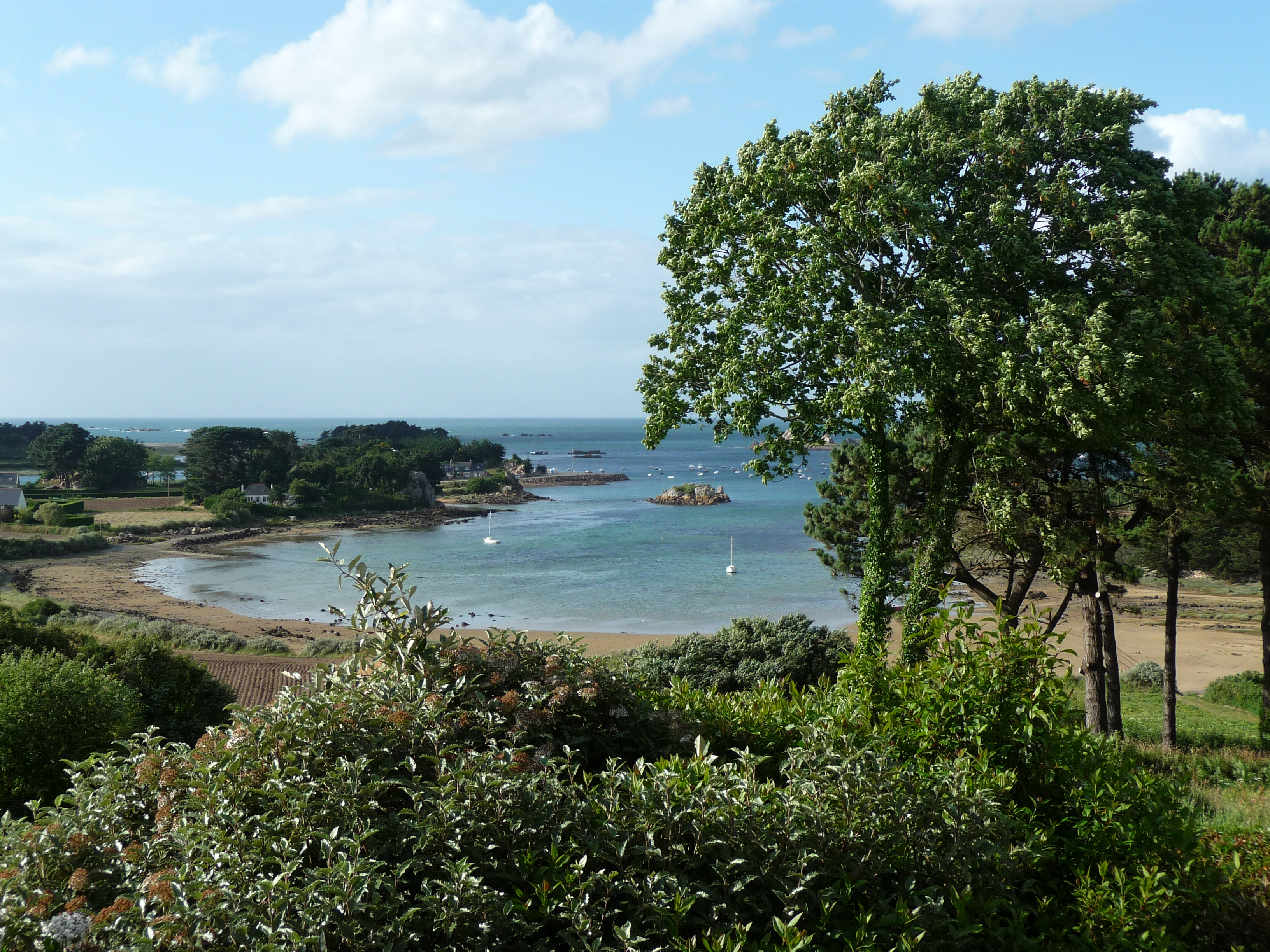 View on the harbour of Buguelès, Bretagne.